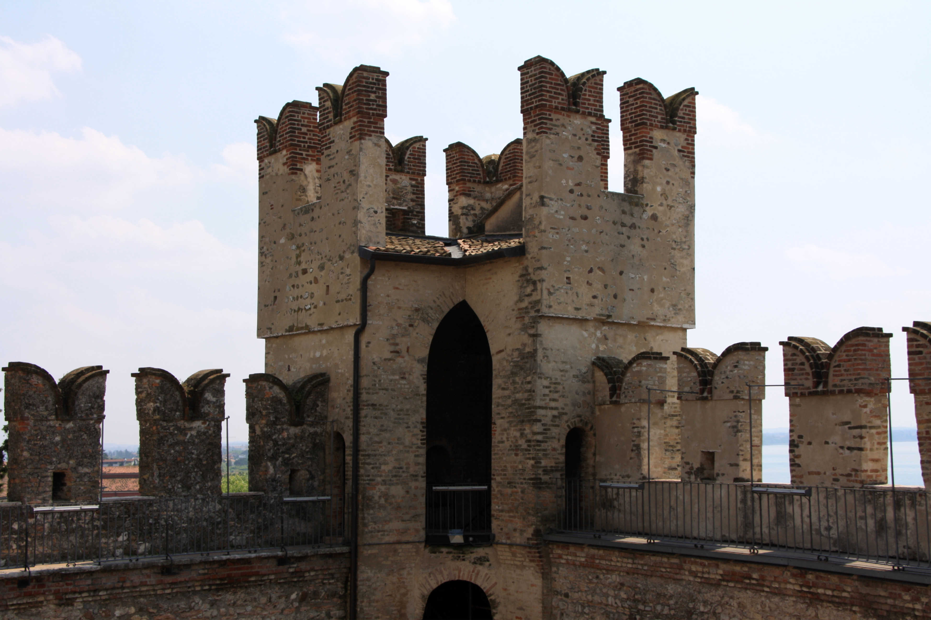 The typical Merlons of the Scaligers at the castle of Sirmione.